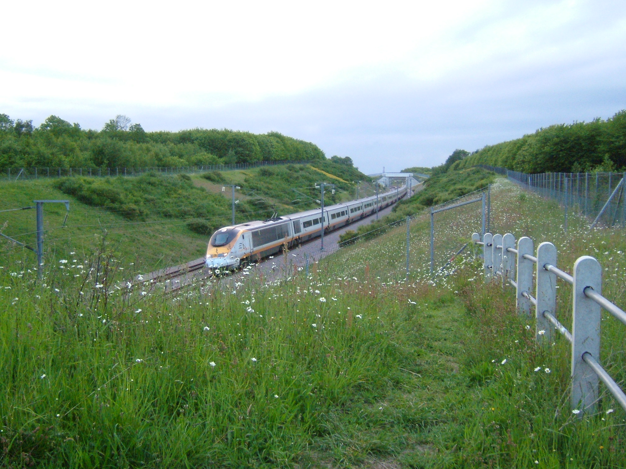 Eurostar at km 48.3, approaching the Medway bridge taken from Temple Wood, Strood, Kent. This spot is accessible from Albatross Ave and Elgin Gardens.